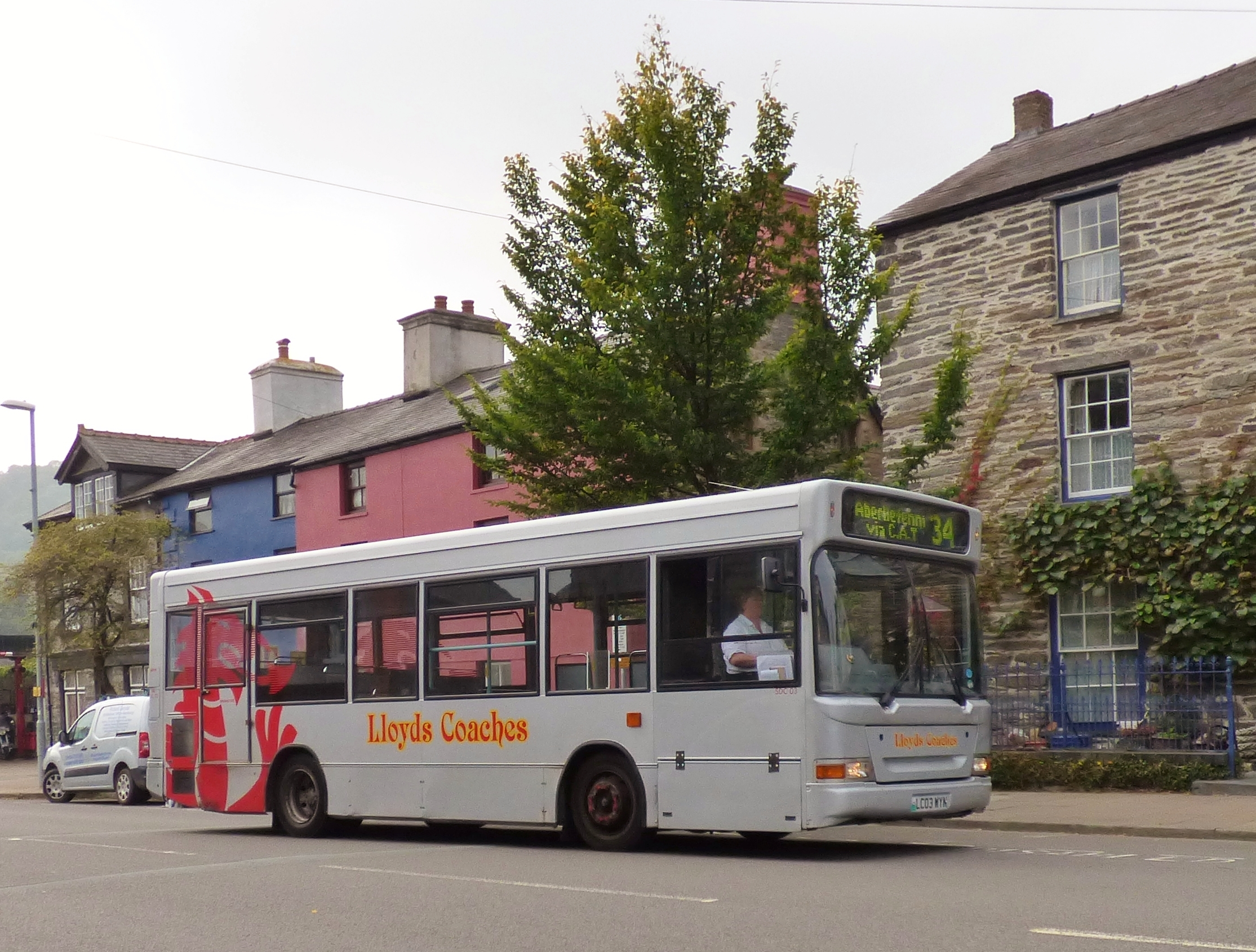 Service 34 at Machynlleth.